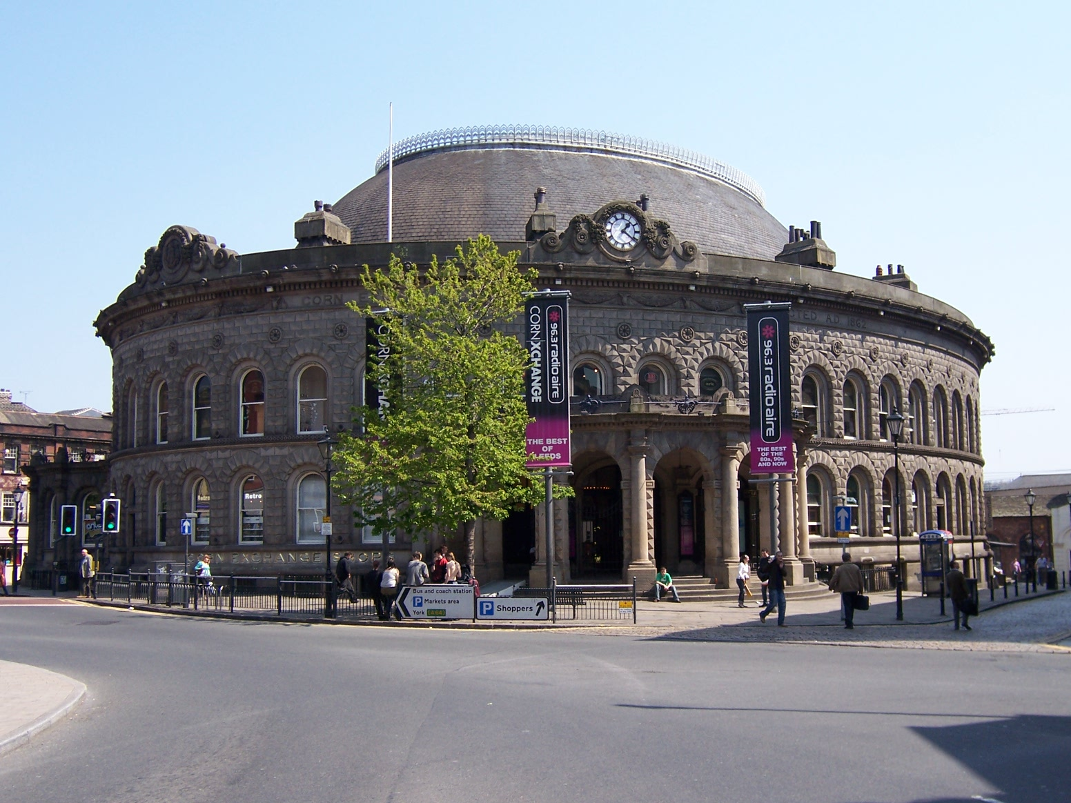 Corn Exchange in Leeds, West Yorkshire (England) own work; photo taken on 10 May 2006